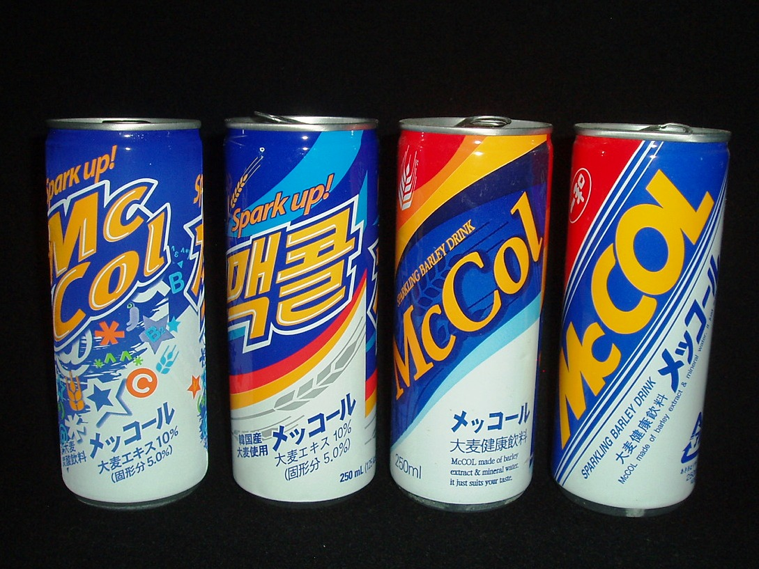 Cans of McCOL (Korean barley beverage) sold in Japan. Left to right: (1) current one (as of July 2015), (2) bought in 2013, (3) bought in 2009, and (4) still older one bought in 2002.